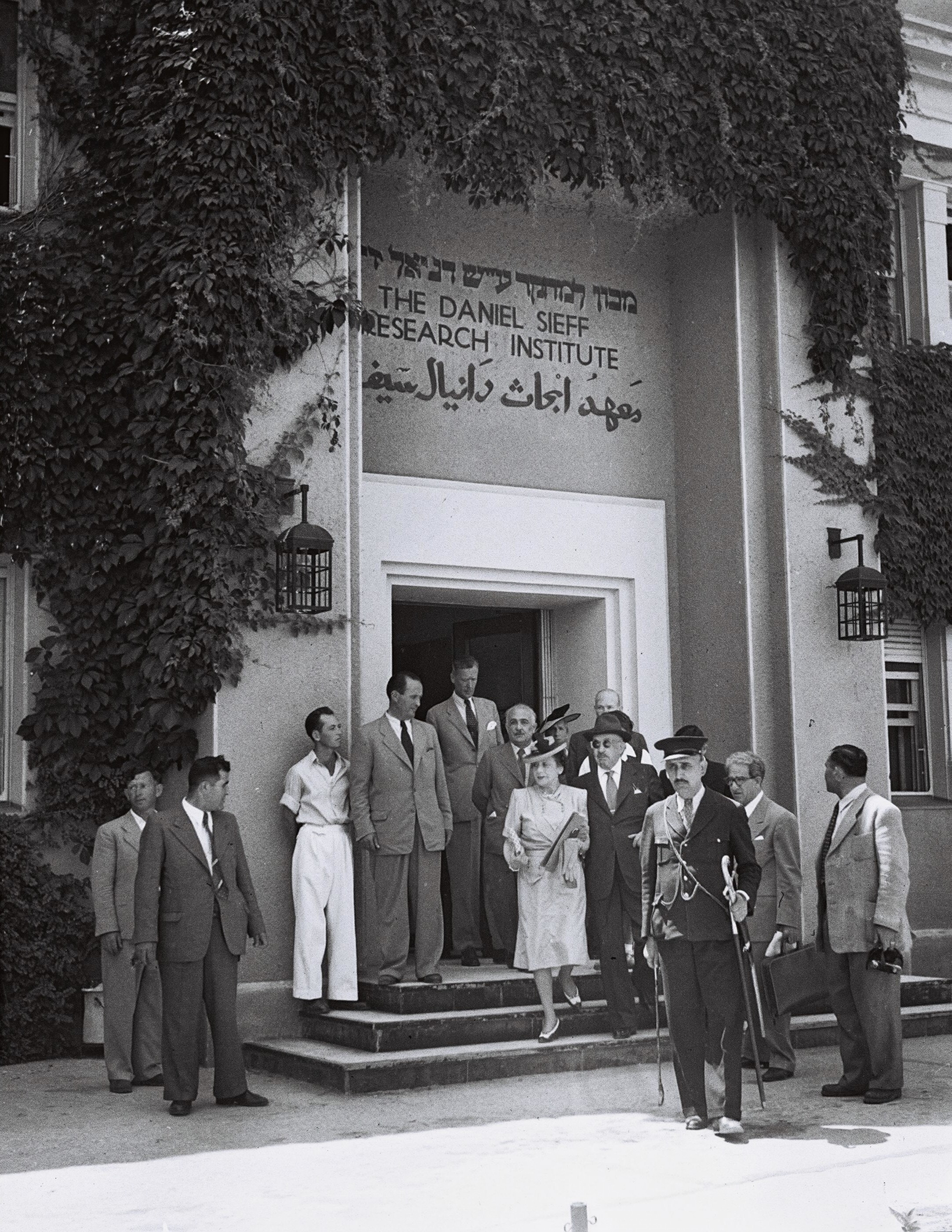 PRES. CHAIM WEIZMANN AND MRS. VERA WEIZMANN LEAVING THE SIEFF RESEARCH INSTITUTE AFTER THE CORNERSTONE CEREMONY FOR THE WEIZMANN INSTITUTE IN REHOVOT. פרופסור חיים ויצמן ורעייתו ורה, עוזבים את המכון למחקר ע"ש דניאל סיף, לאחר טקס הנחת אבן הפינה למכון ויצמן, ברחובות.